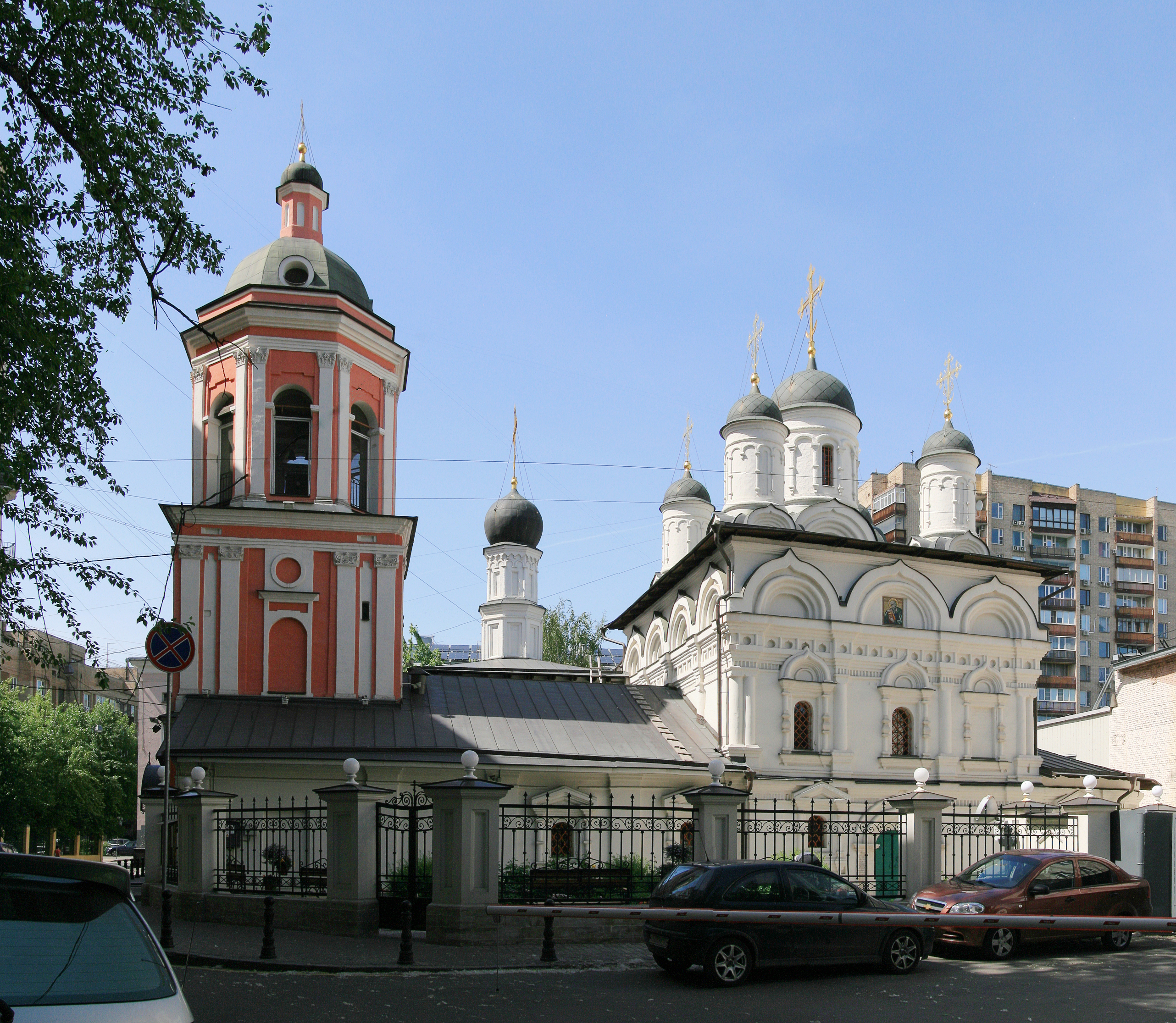 Saint John the Evangelist Church in Bronnaya Sloboda, Moscow